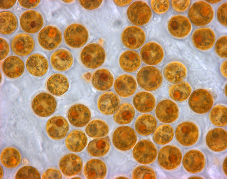 Symbiodinium, colloquially called "zooxanthellae". Corals contain dense populations of round micro-algae commonly referred to as zooxanthellae. A typical coral will have one to several million symbiont cells in an area of tissue the size of a thumbnail.